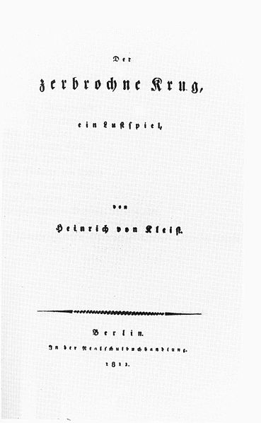 Book title page of Heinrich von Kleist's "Der zerbrochne Krug" (The Broken Jug), Berlin 1811